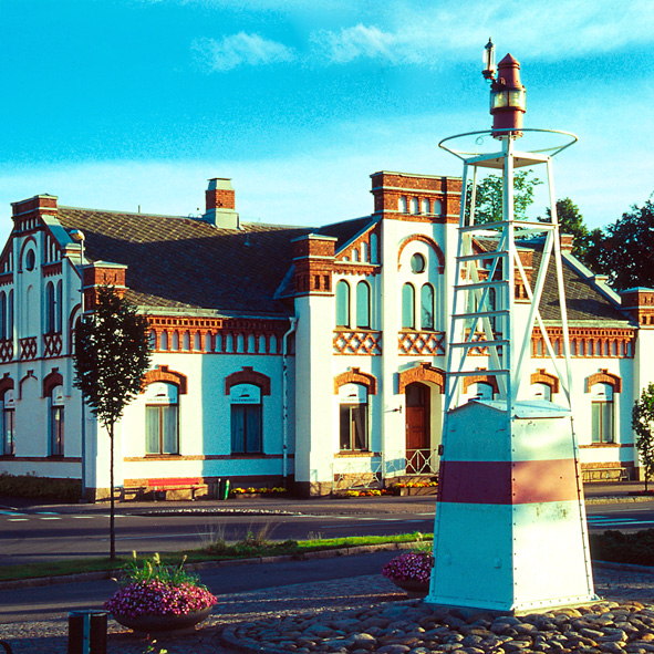 Dalén museum in Stenstorp, Falköping Municipality, Västergötland, Västra Götaland County, Sweden. Photographer:Wigulf